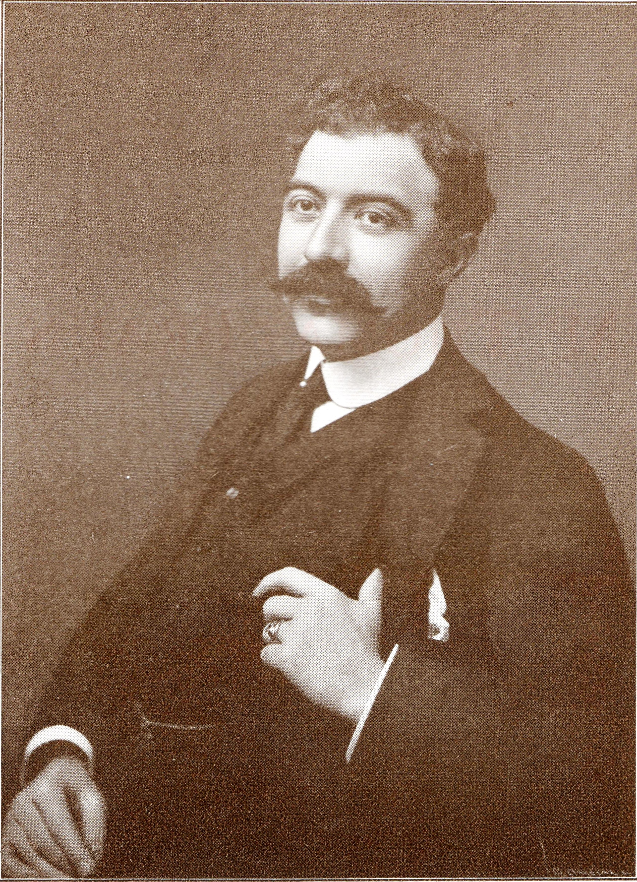 Mr Thomas Braun belgian Lawyer and poet 1876-1961 celebrating a silver Jubilee in 1923